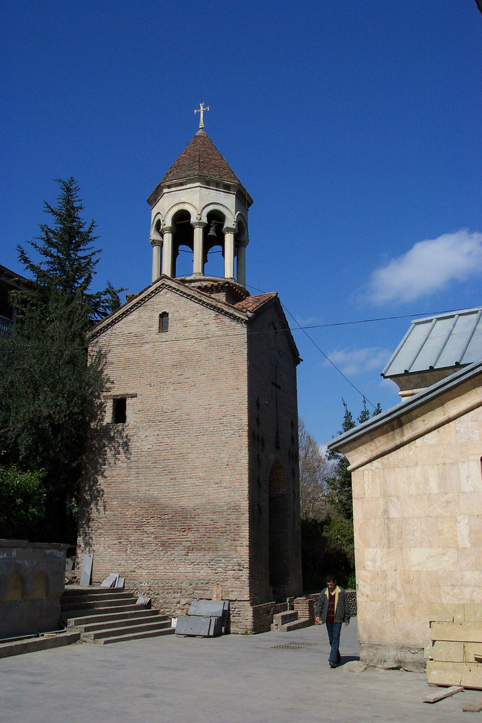 Sioni Cathedral, Tbilisi, Georgia. The Bell tower was build by Vakhtand VI